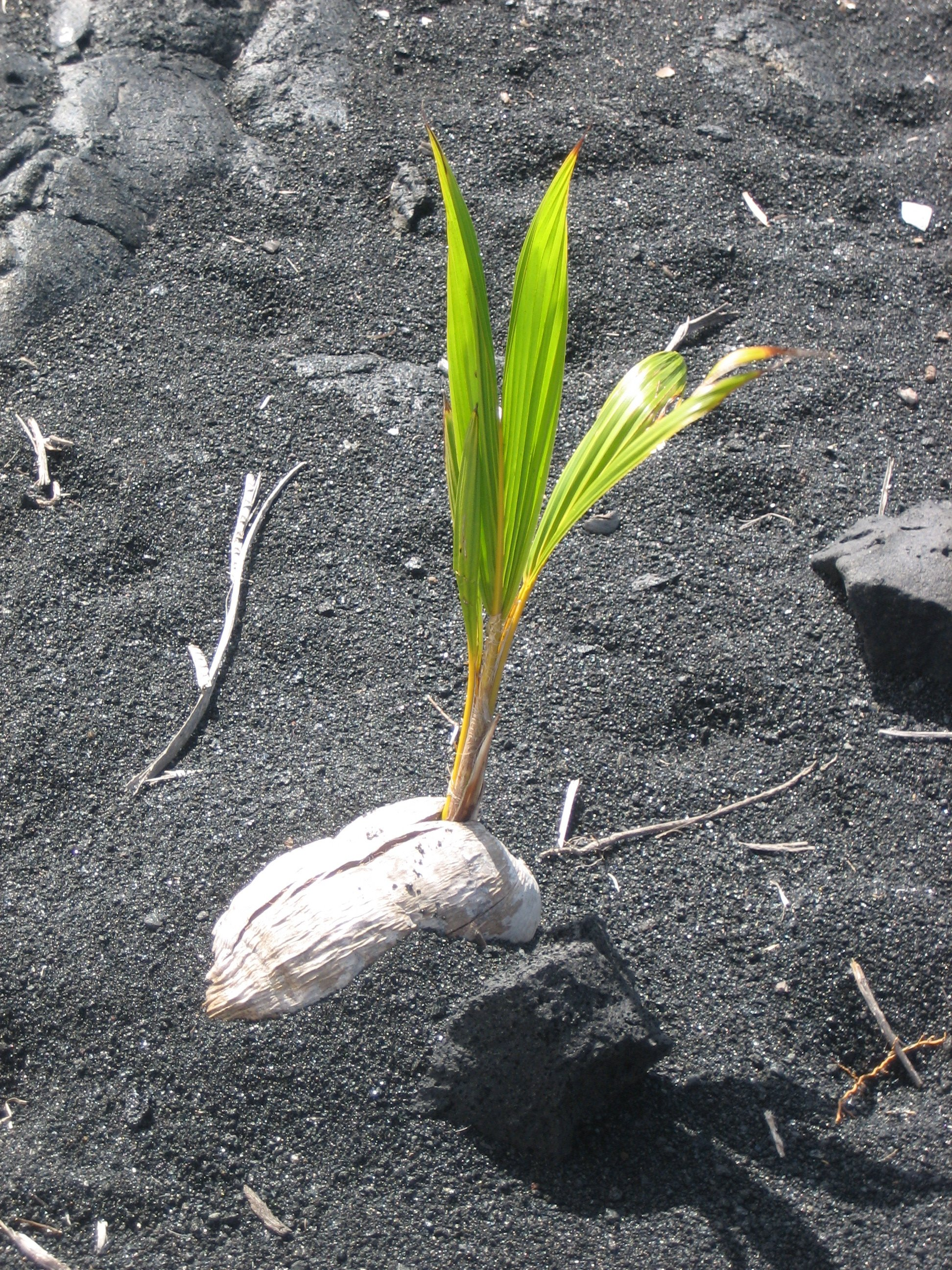 Coconut palm (Cocos nucifera) germinating on Punaluu Black Sand Beach, island of Hawai’i.